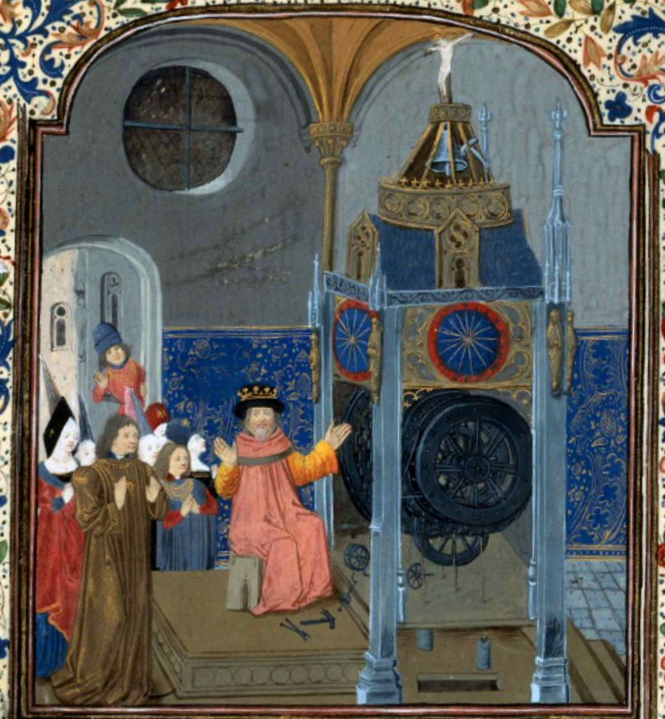 Louis de Bruges in front of an astronomical clock Henri Suso, Horloge de Sapience 1470-1480